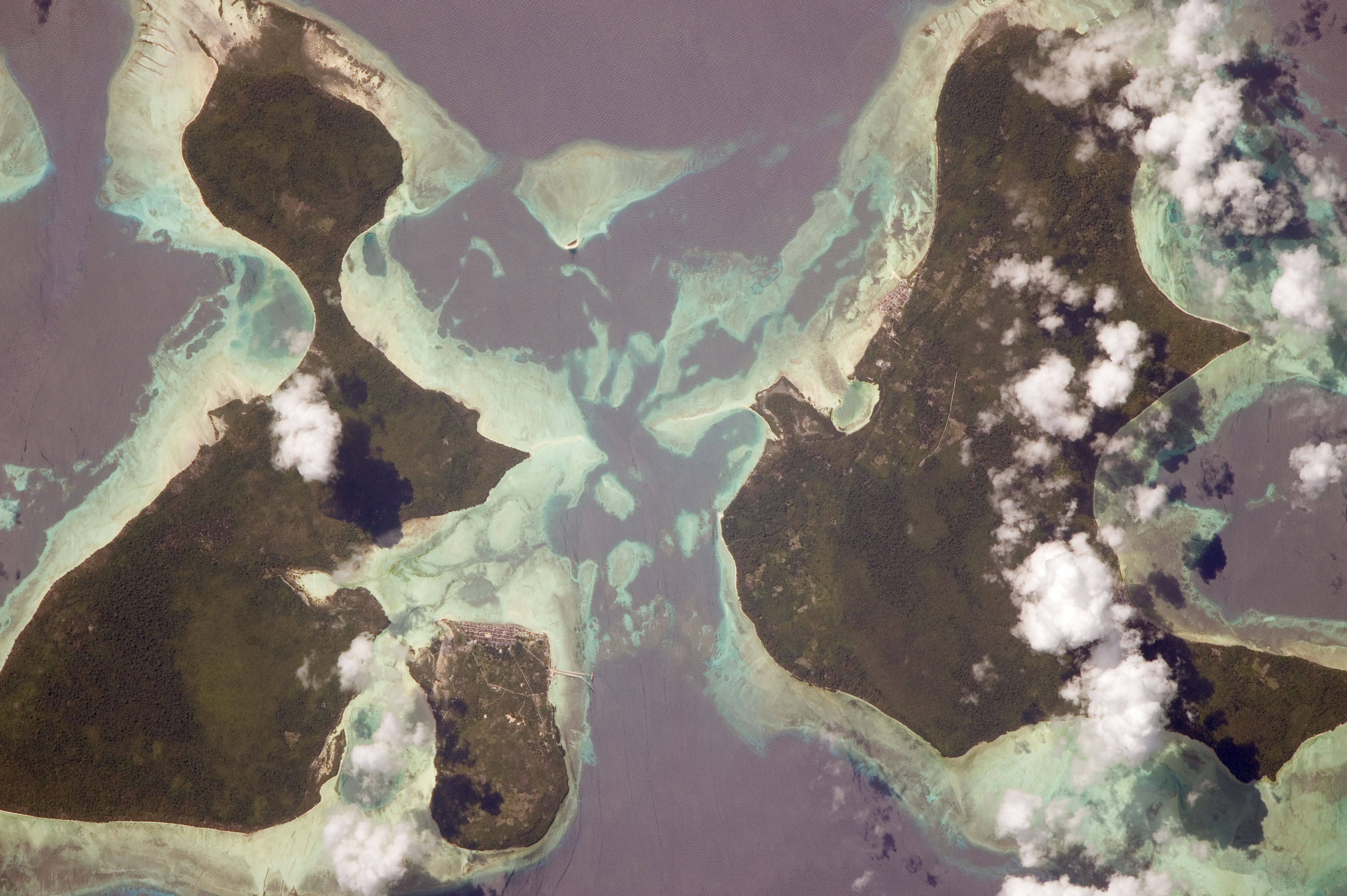 NASA astronaut Tim Kopra tweeted this image with the comment: "#twins -- small #islands in #Indonesia . @Space_Station #Explore"